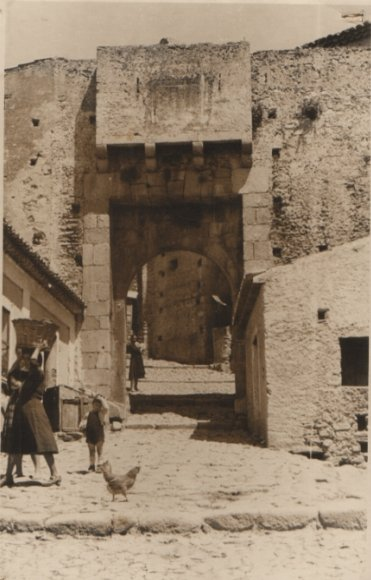 South Gate of Monasterace